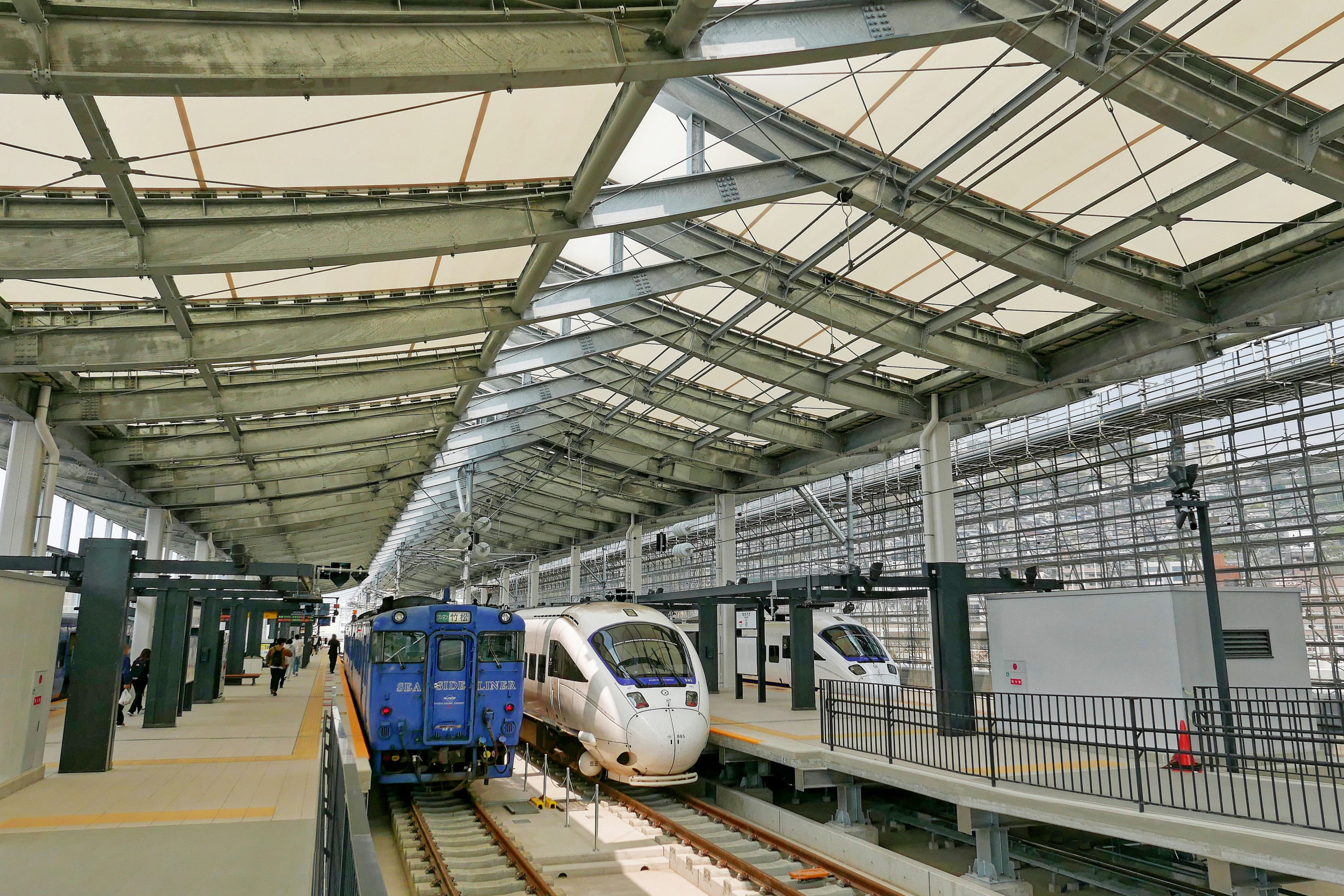 Nagasaki Station.